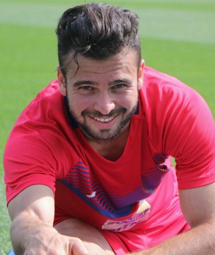 Soroush Rafiei